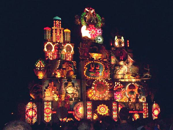 Popular carnival "Charanga" in Bejucal, Cuba